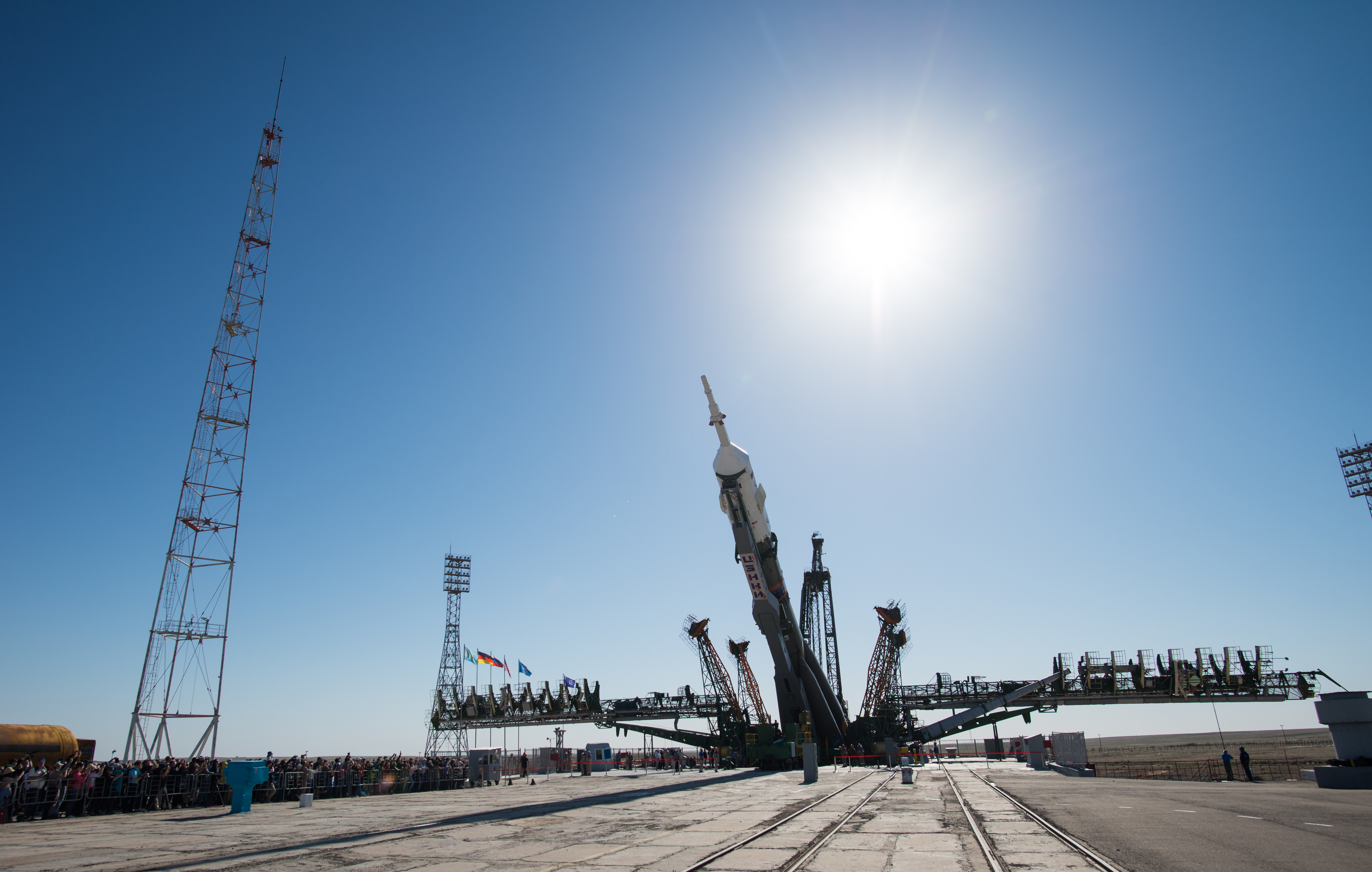 The Soyuz rocket is raised into a vertical position on the launch pad, Monday, June 4, 2018 at the Baikonur Cosmodrome in Kazakhstan. Expedition 56 Soyuz Commander Sergey Prokopyev of Roscosmos, flight engineer Serena Auñón-Chancellor of NASA, and flight engineer Alexander Gerst of ESA (European Space Agency) are scheduled to launch aboard their Soyuz MS-09 spacecraft at 7:12 a.m. Eastern time (5:12 p.m. Baikonur time), on Wednesday, June 6.